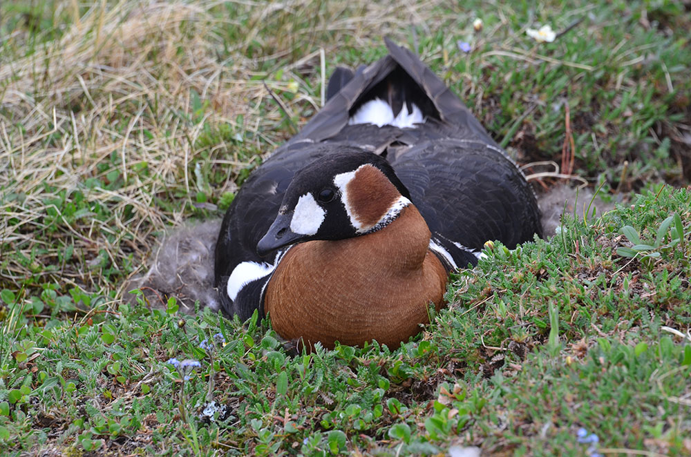 Red-breasted goose (Branta ruficollis) in Taimyr Reserve